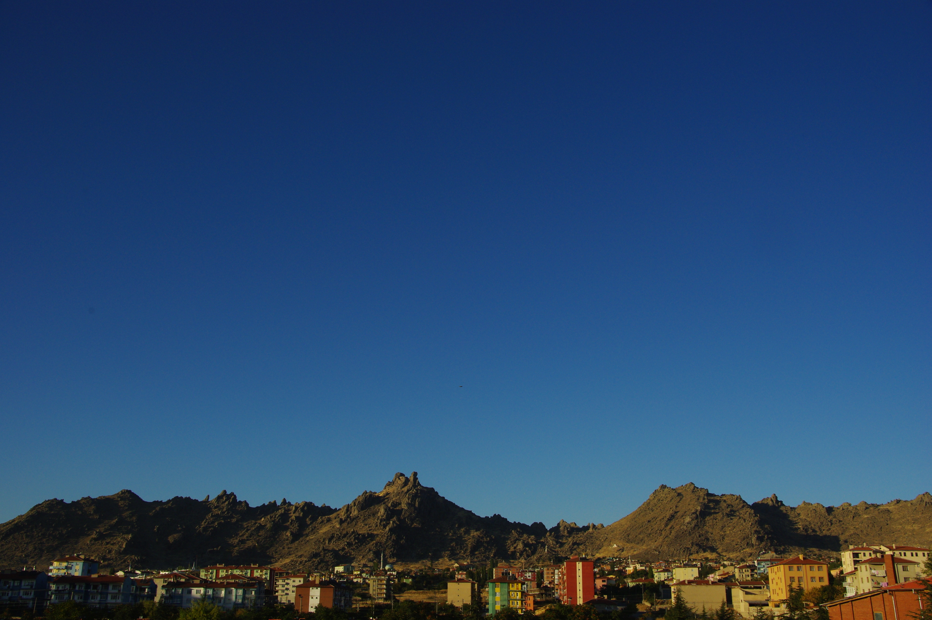 The view of Sivrihisar from the main road